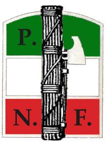 Emblem of the National Fascist Party